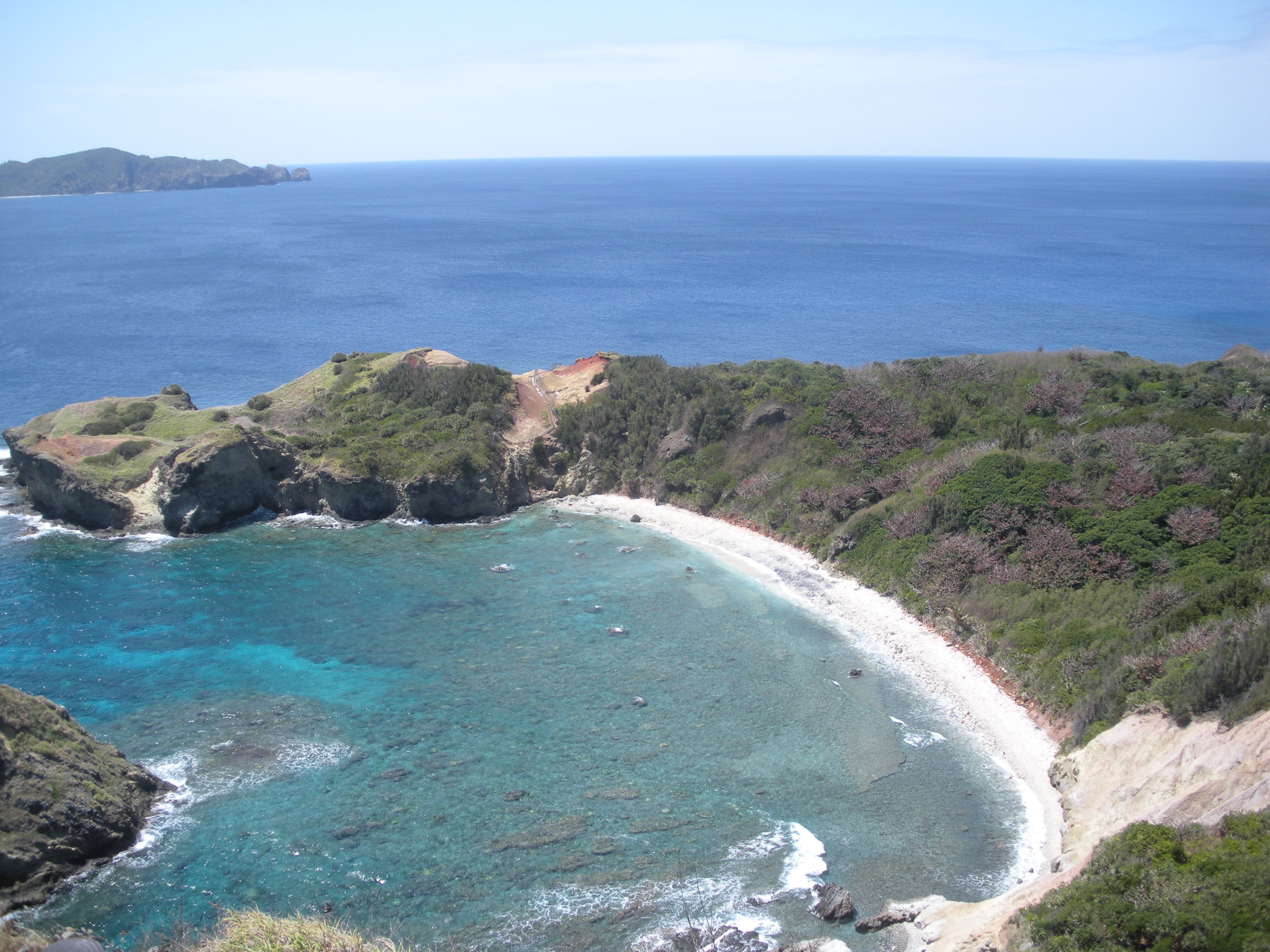 Coast-Minamizaki in Japan Bonin Islands Hahajima Island